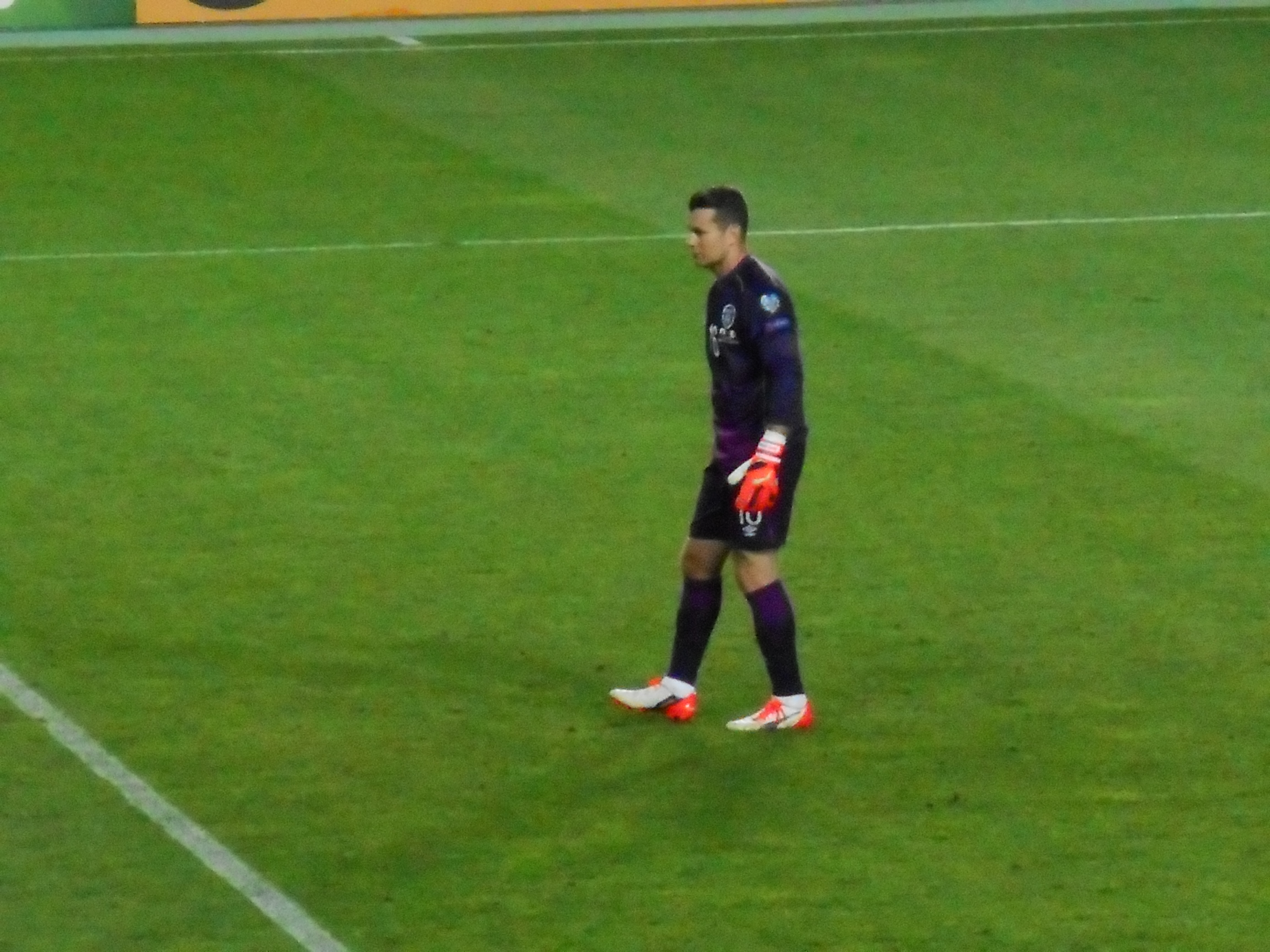 Irish goalkepper Shay Given. Gibralter playing the Republic of Ireland in the UEFA Euro Championship 2016 qualifier played on the 4 September 2015 at the Estádio do Algarve, near Almancil, Algarve, Portugal. Final score was 0-4 to Ireland